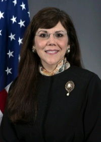 Dr. Yleem D.S. Poblete, Assistant Secretary, Bureau of Arms Control, Verification and Compliance